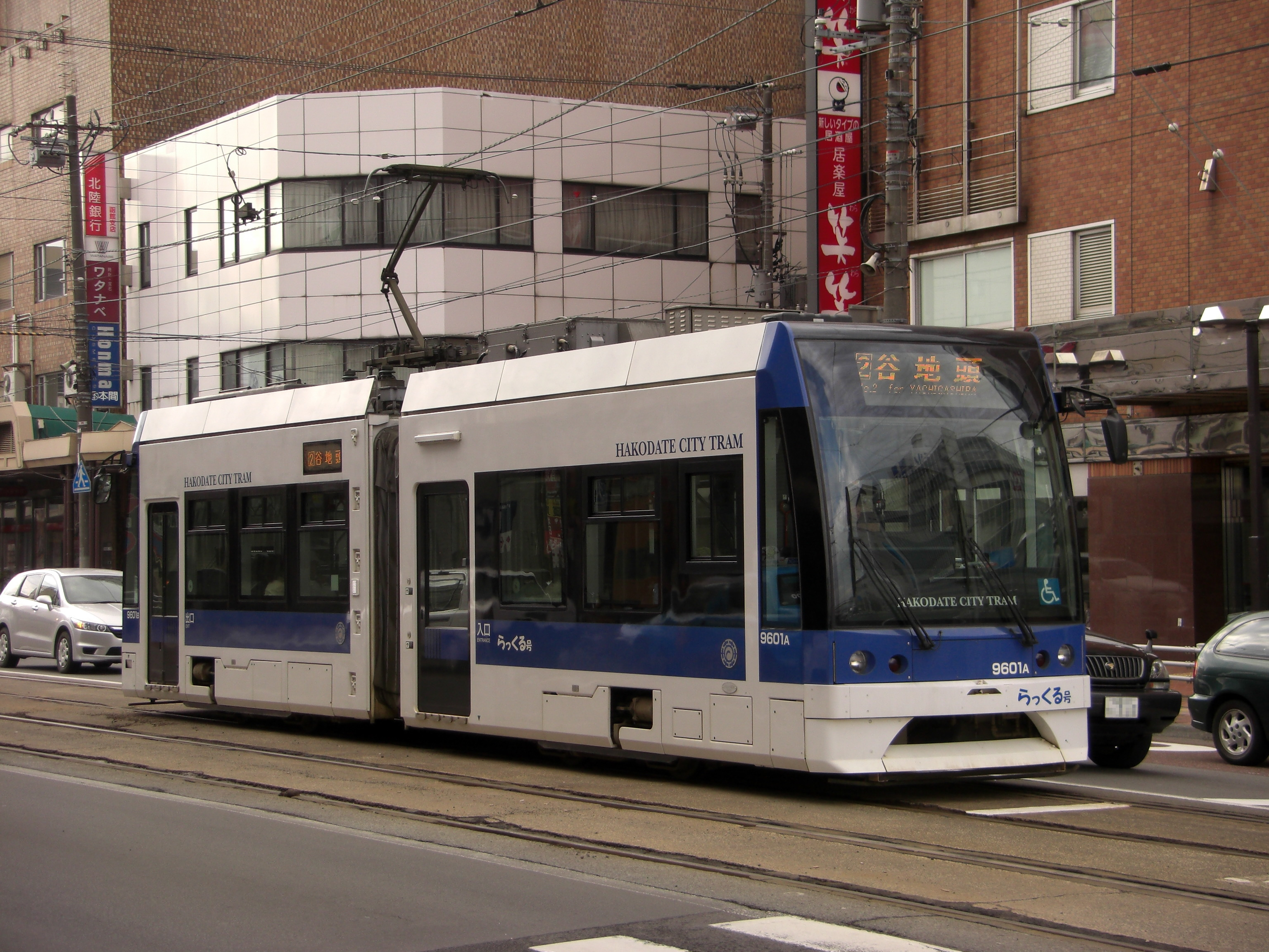 Hakodate Transportation Bureau type 9600 tramcar (Hakodate, Hokkaido, Japan)